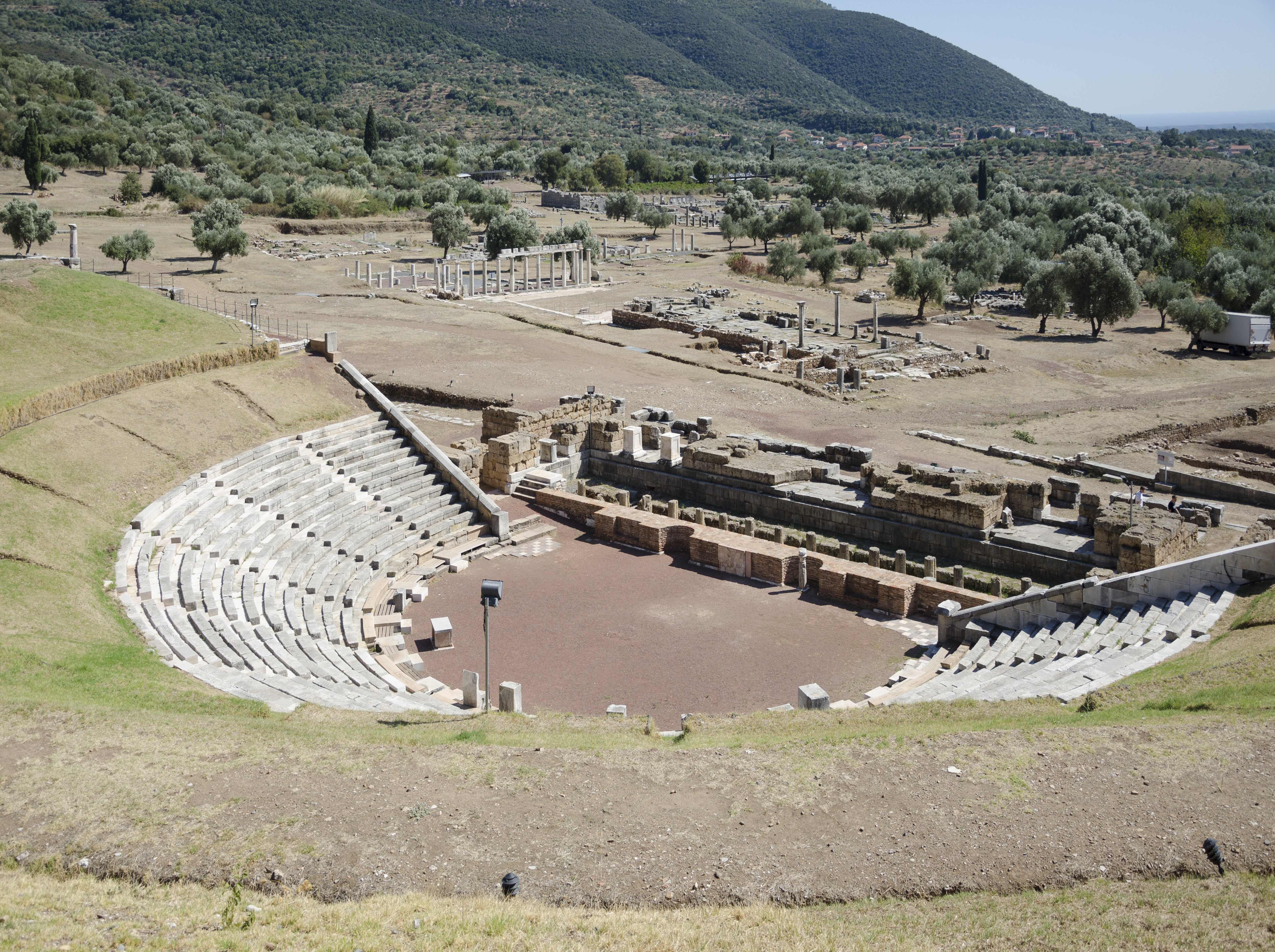 The amphitheatre at Ancient Messene.